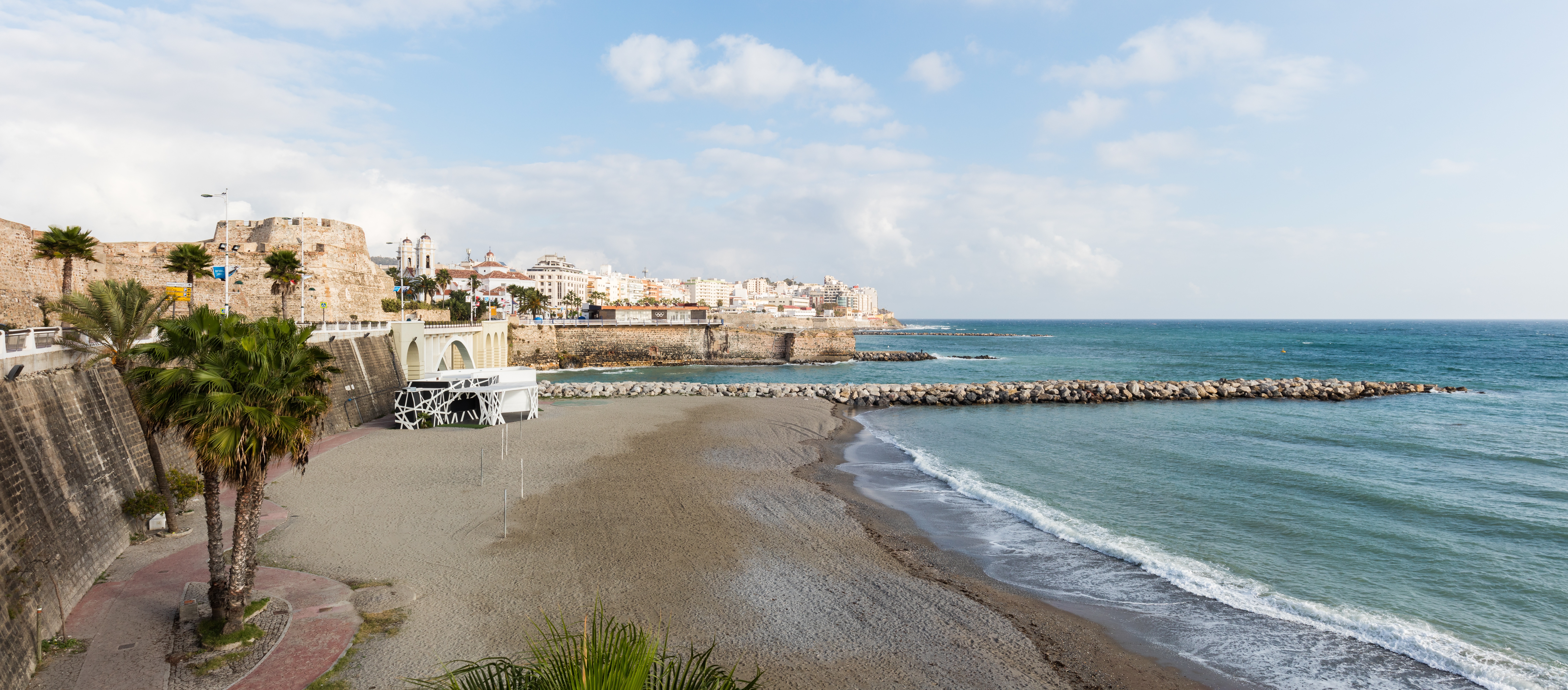 Coast of Ceuta, Spain